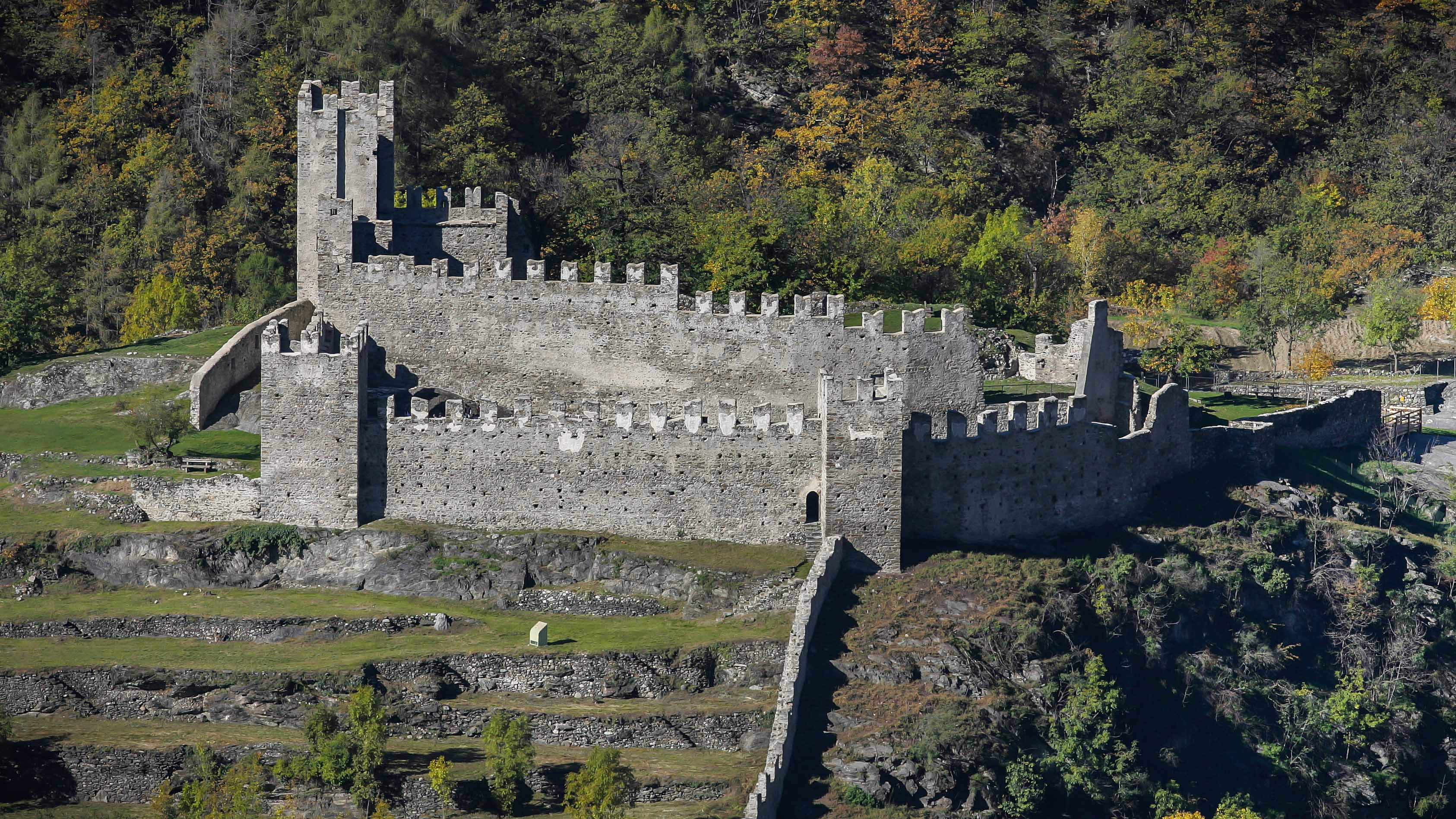 Parco Grosio; Castello Nuovo